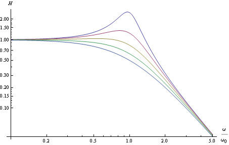 Loglog graph of a transfer function with different damping factors (.2, .4, .6, .8 and 1 from the top and down), se detailed description below. Made in Mathematica.